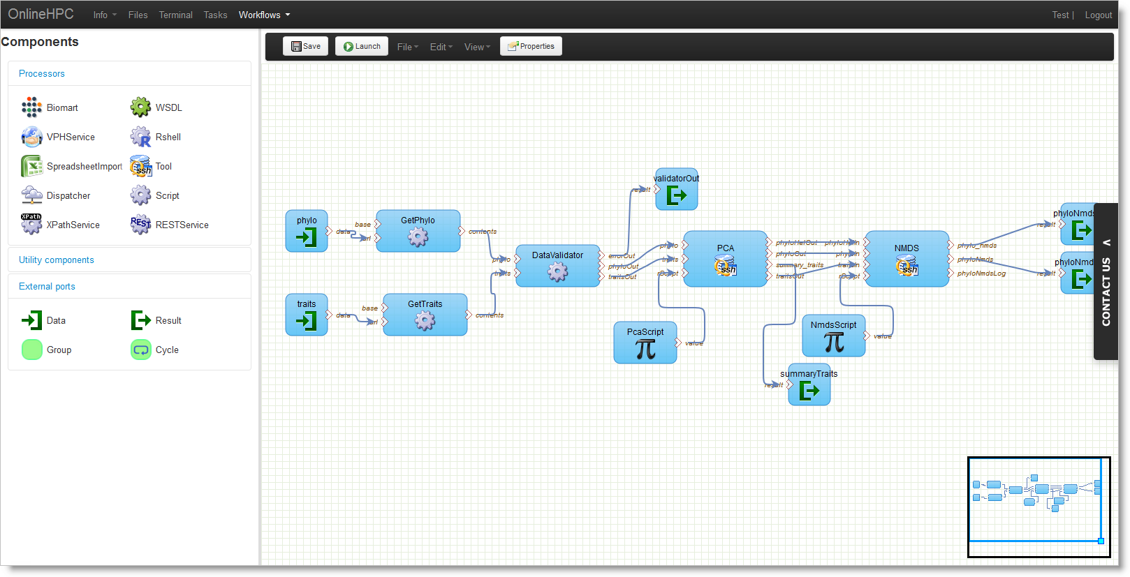 Screenshot of the OnlineHPC workflow designer